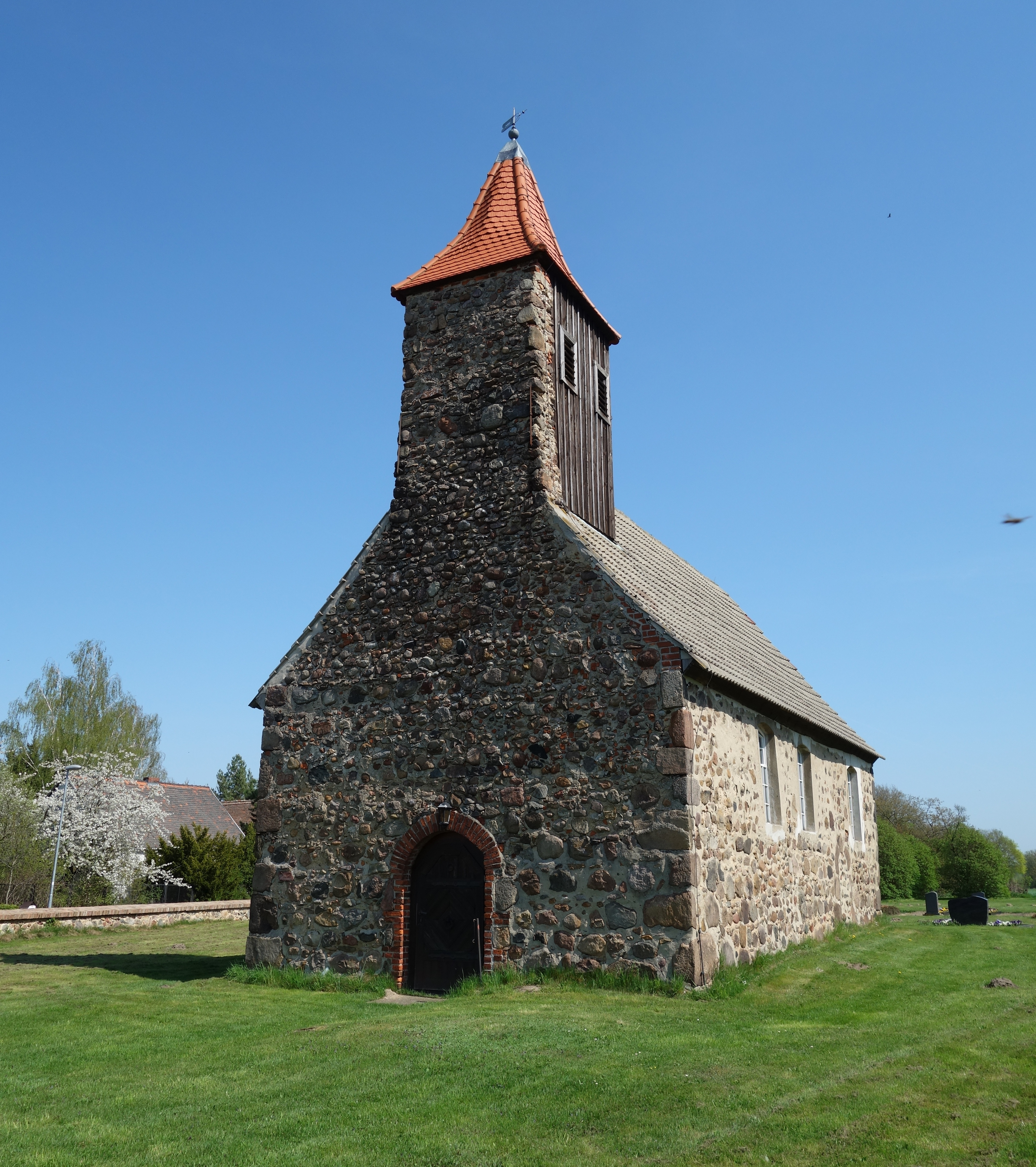 South-western view of the church in Pflügkuff , Treuenbrietzen municipality, Potsdam-Mittelmark district, Brandenburg state, Germany